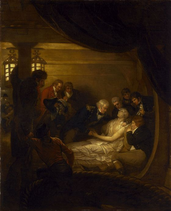 "The Death of Lord Nelson in the Cockpit of the Ship 'Victory'"